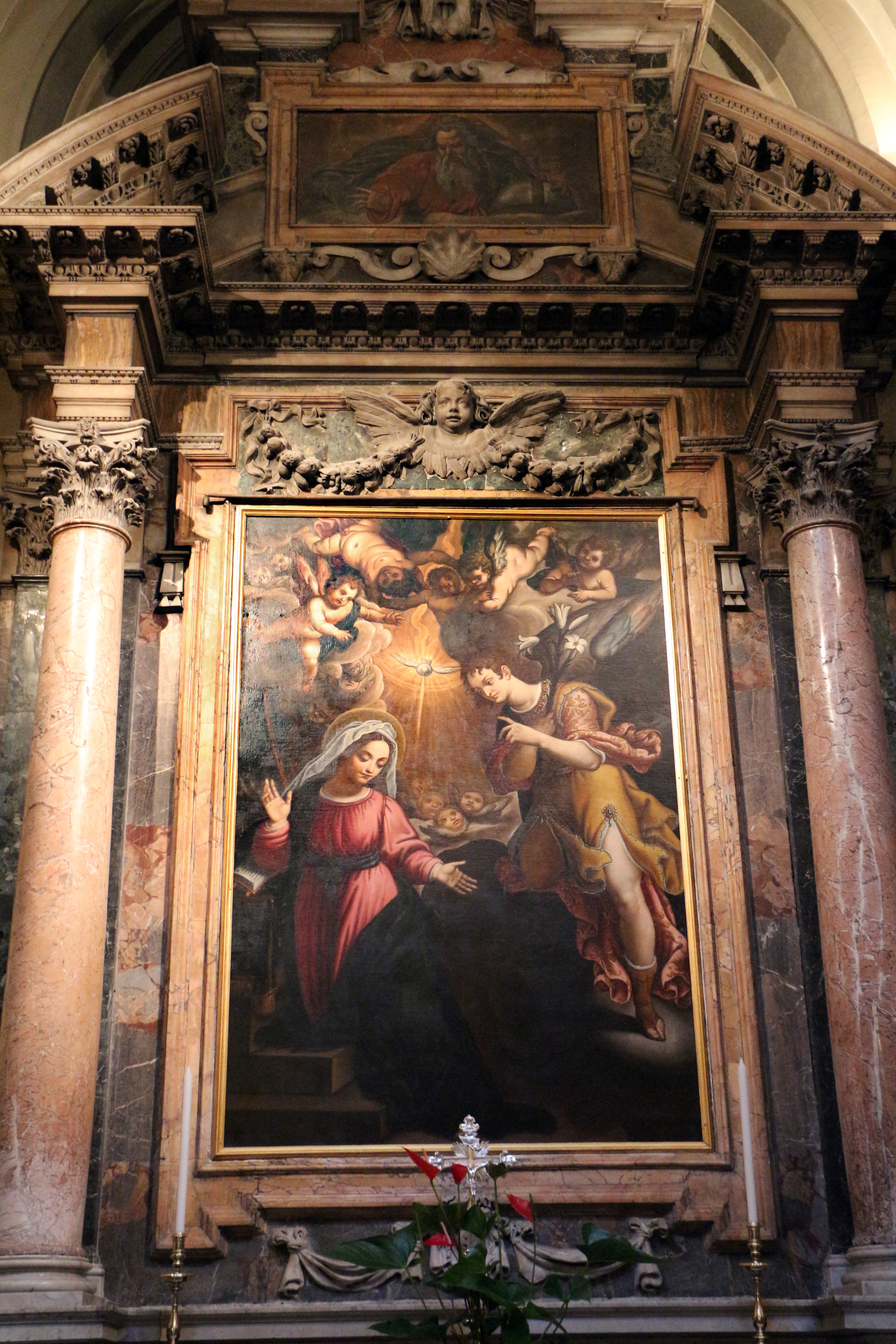 Santa Maria in Monserrato degli Spagnoli - Interior